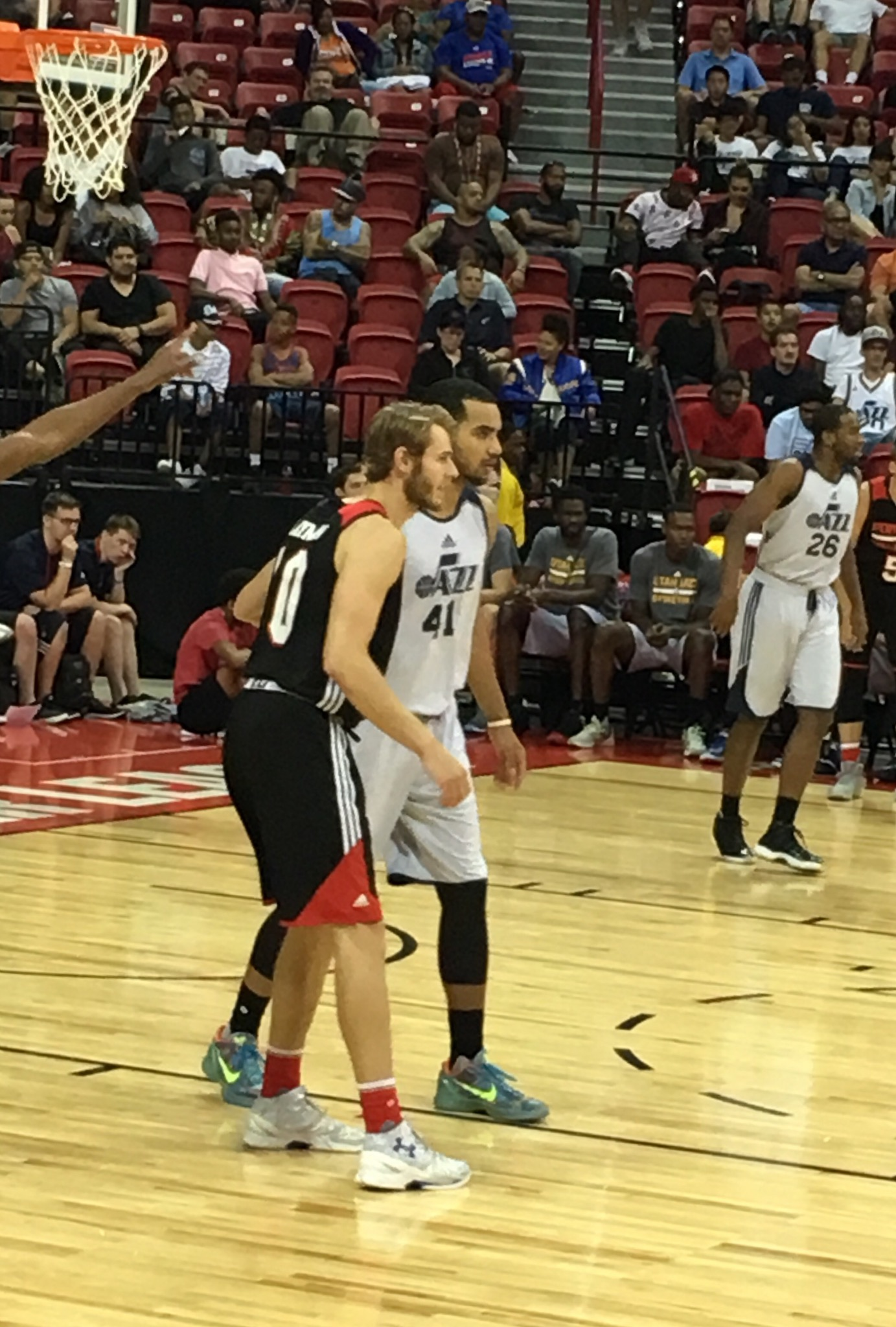 Layman guarding Trey Lyles at NBA Summer League